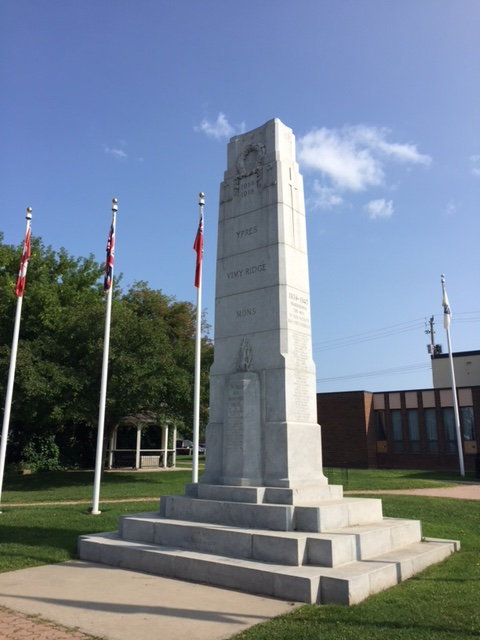 War Memorial Located in Lowe Square, Renfrew, Ontario